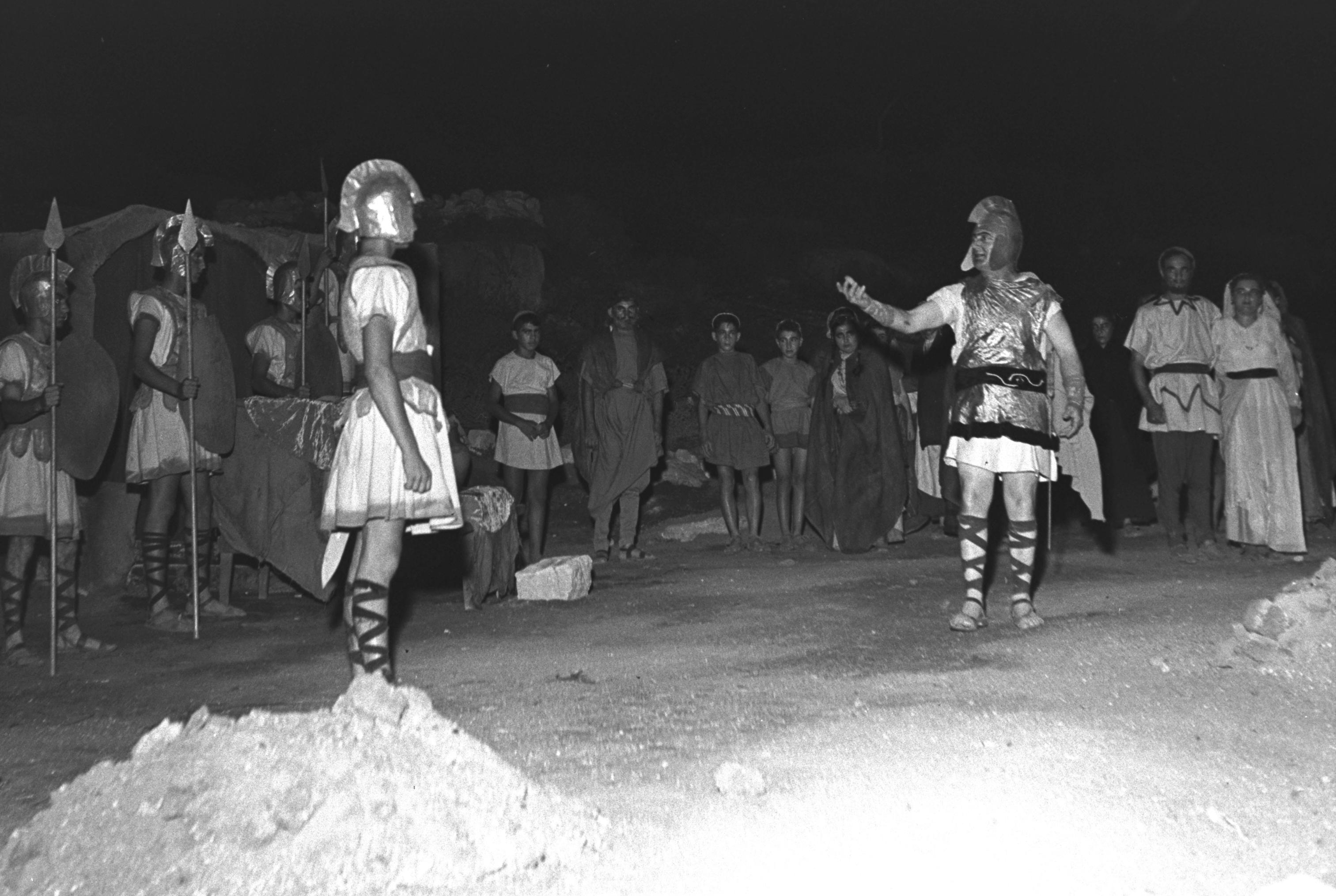 Original Description: KIBBUTZ SARID MEMBERS PERFORMING "MY GLORIOUS BROTHERS".